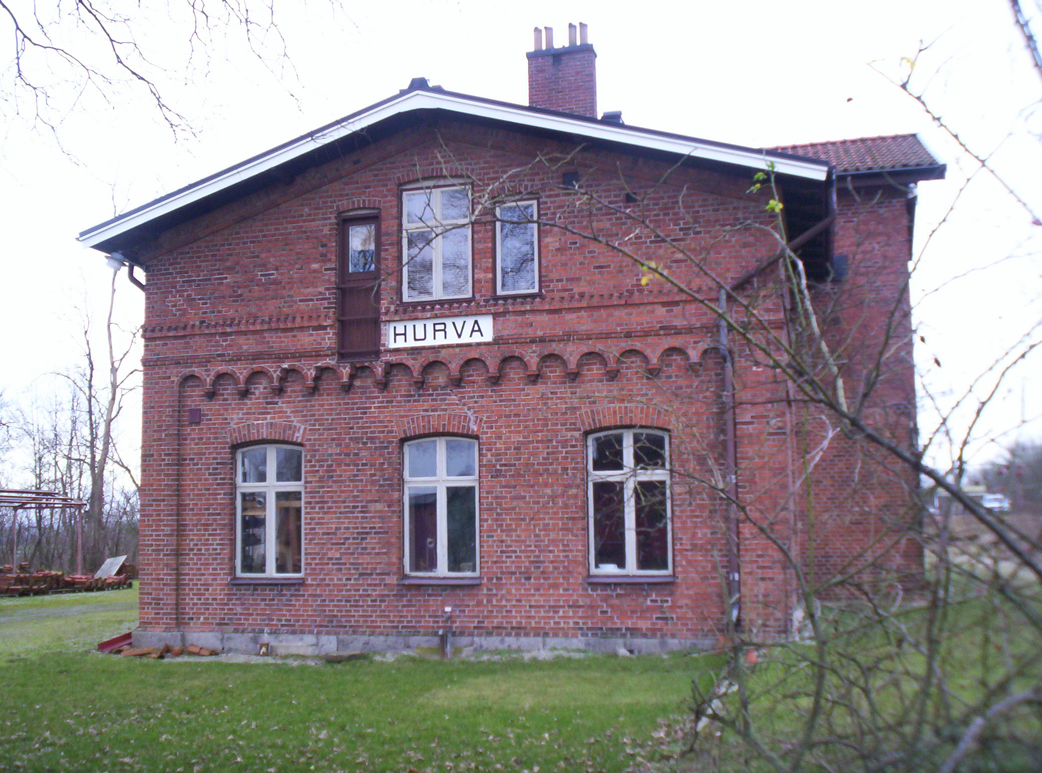 The old trainstation in Hurva, Skåne